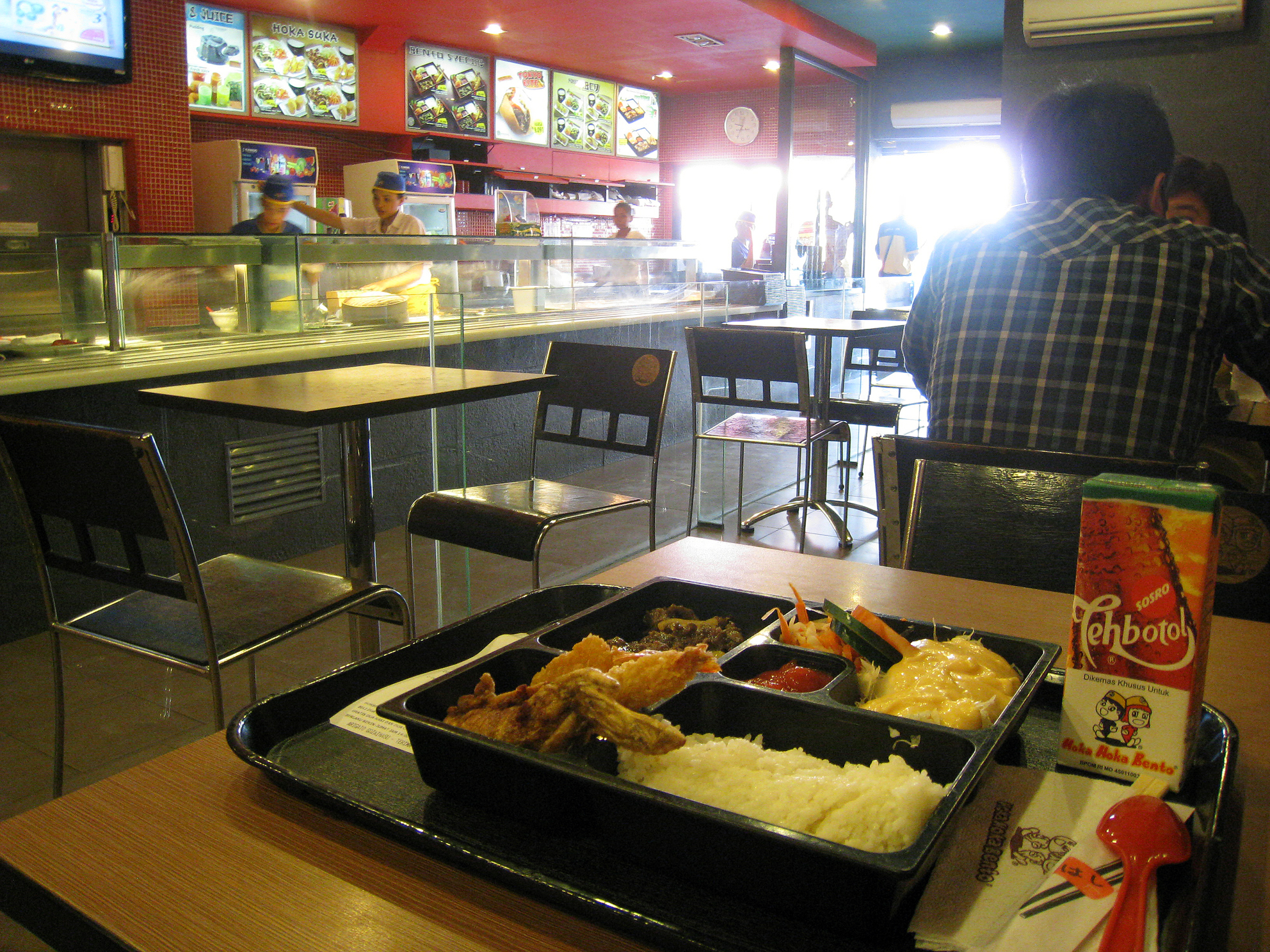 The interior of Hoka Hoka Bento Japanese Fastfood Restaurant in Jalan Sabang, Central Jakarta.